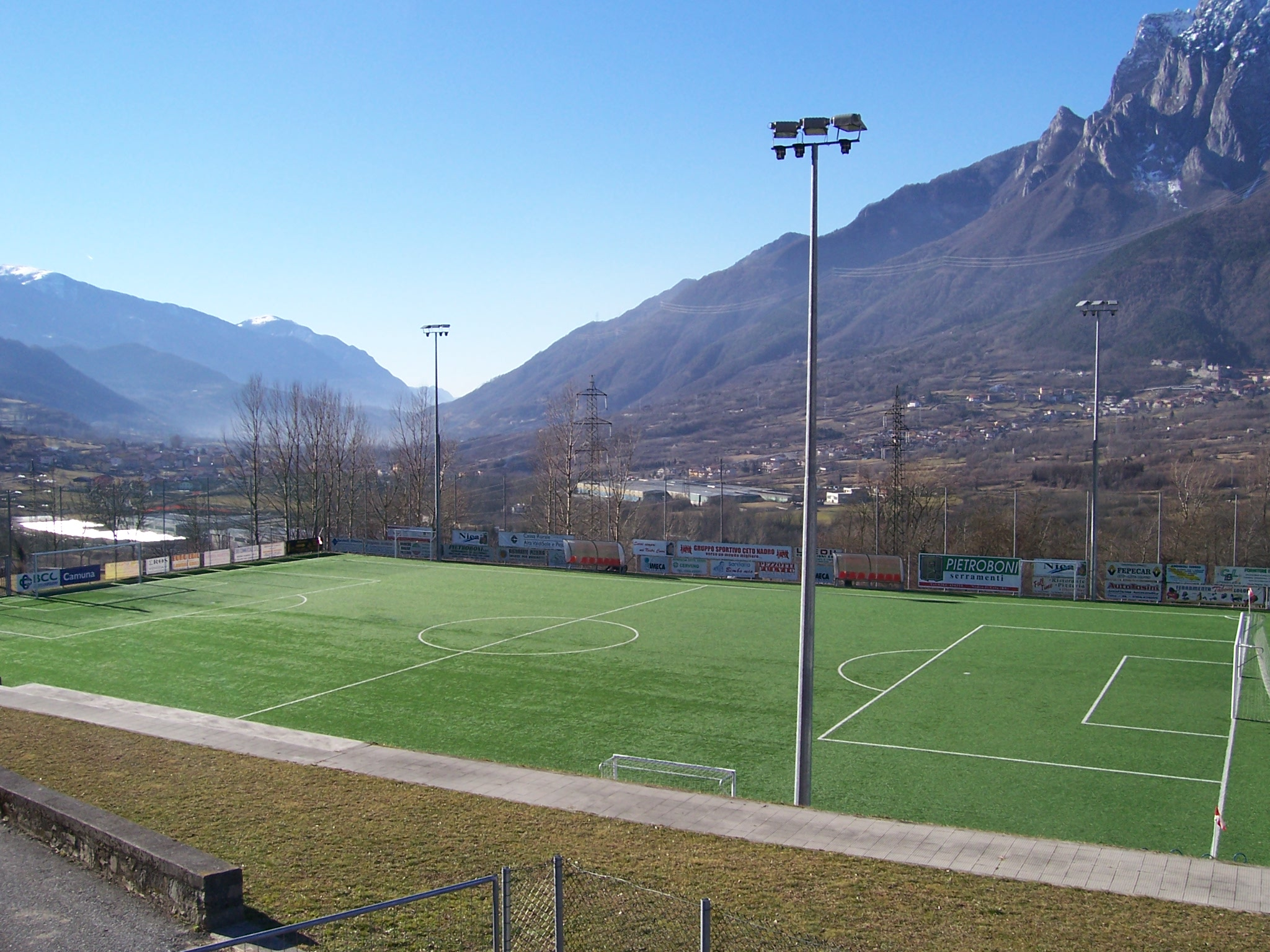 Soccer stadium next to Nadro, Val Camonica, Italia